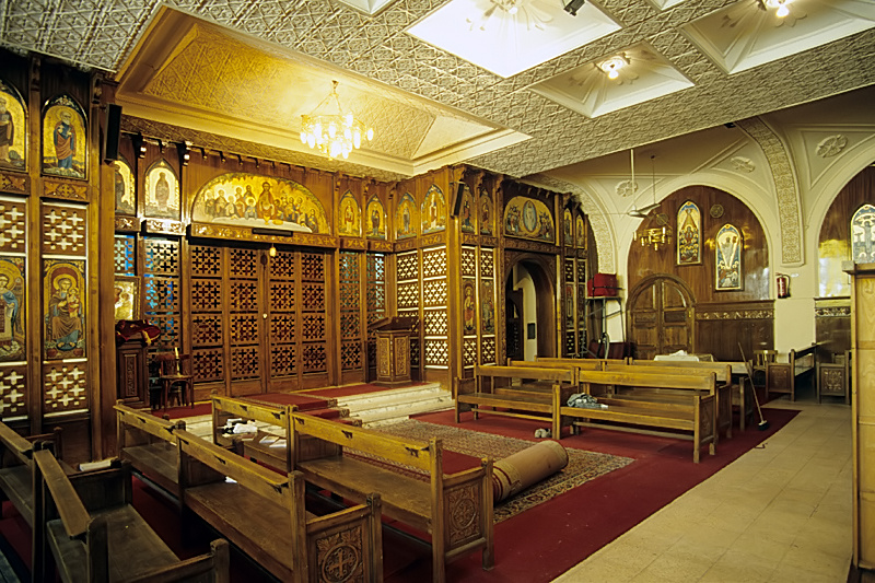 Church of el-Anba Rewez, St. Mark Cathedral, el-'Abbasiya, Cairo, Egypt